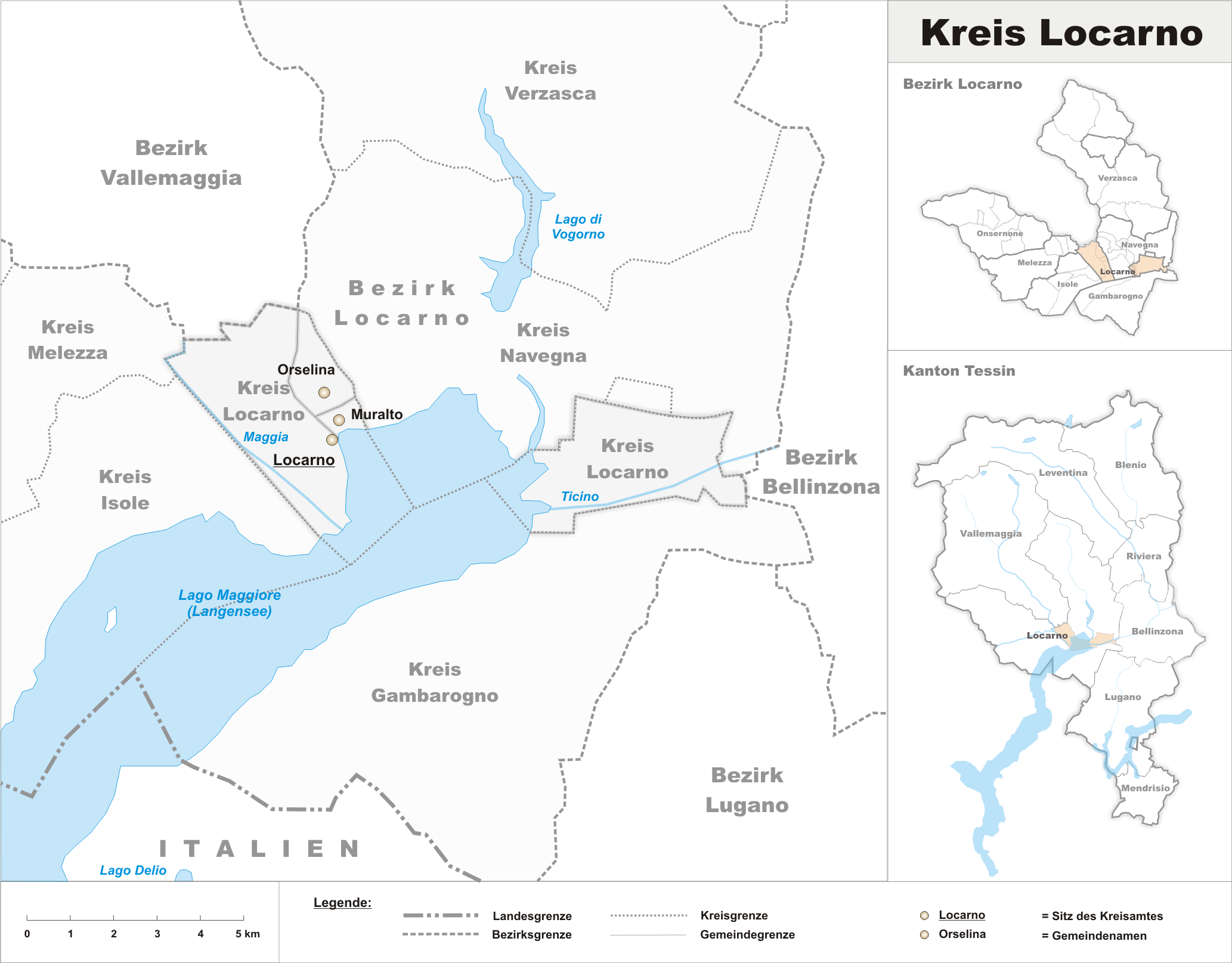 Municipalities in the circle of Locarno